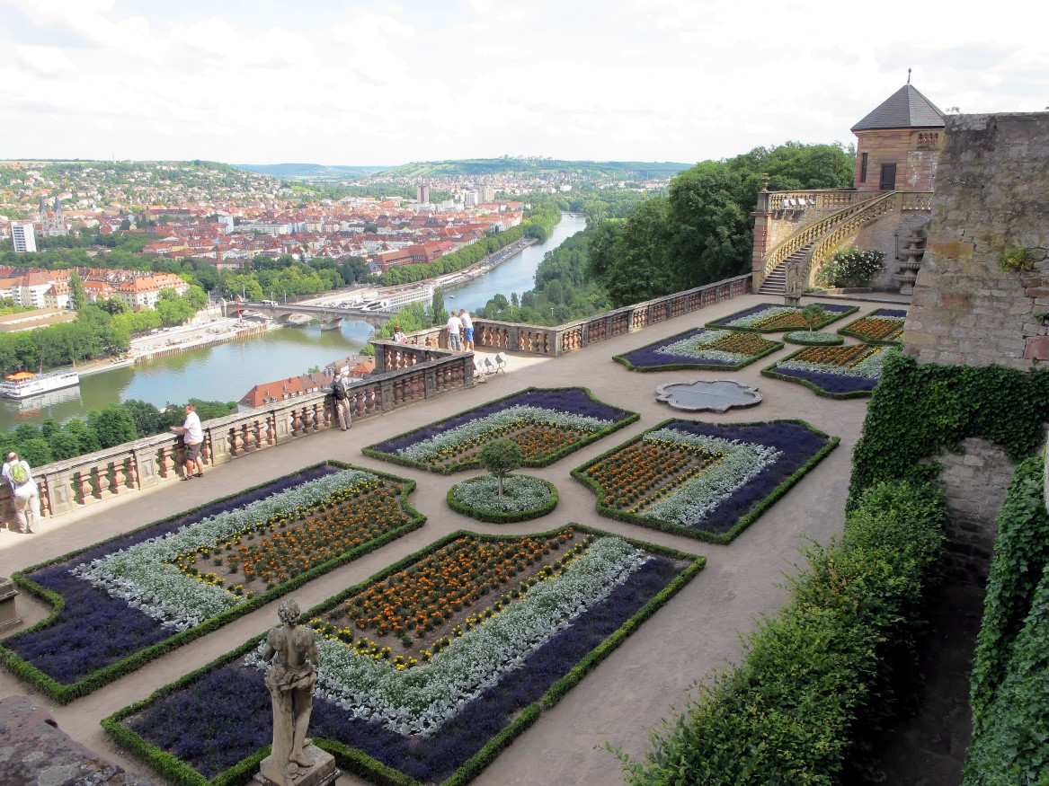 Würzburg, Fortress "Marienberg", Garten "Fürstengarten"